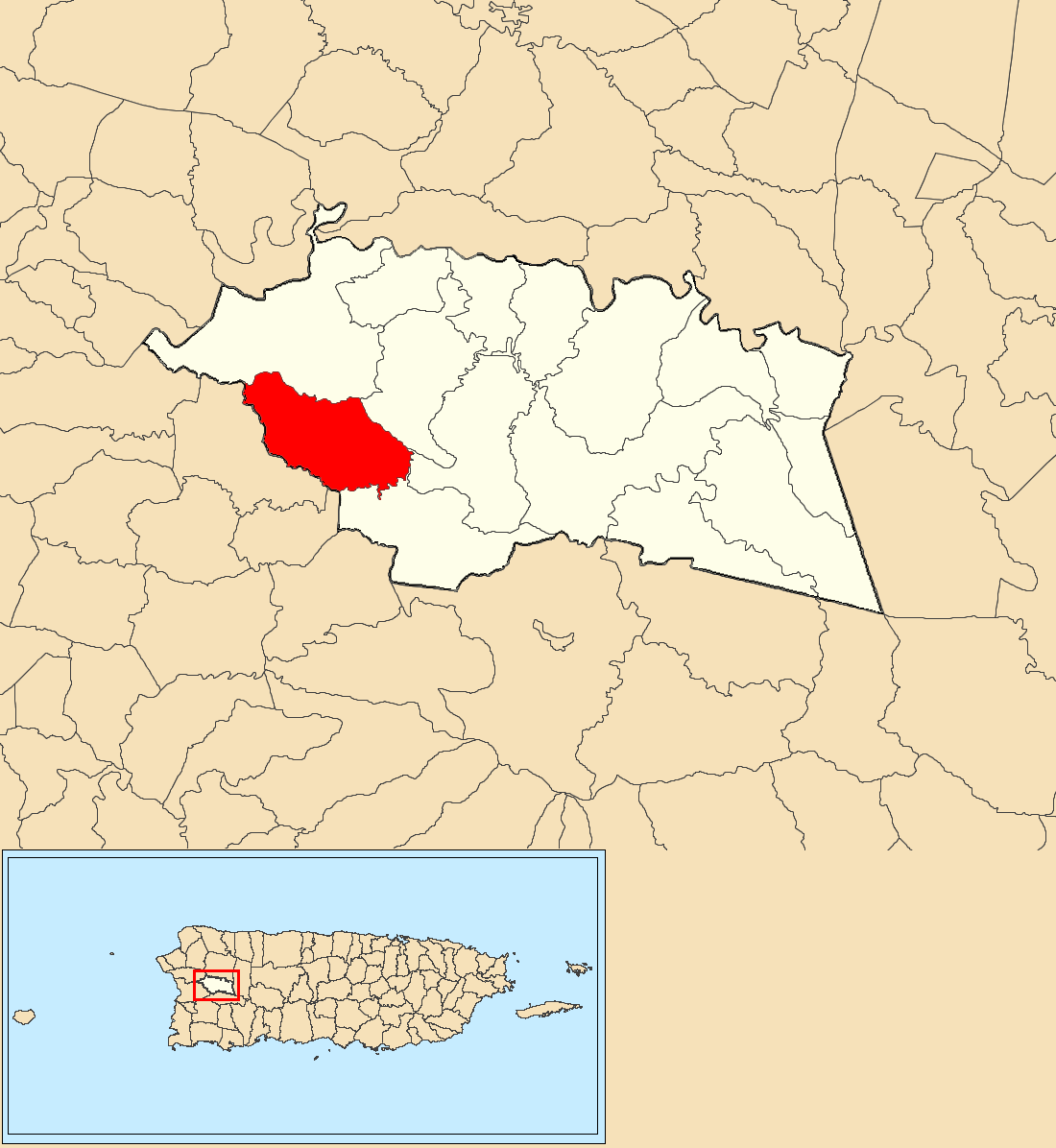 Río Cañas, Las Marías, Puerto Rico locator map